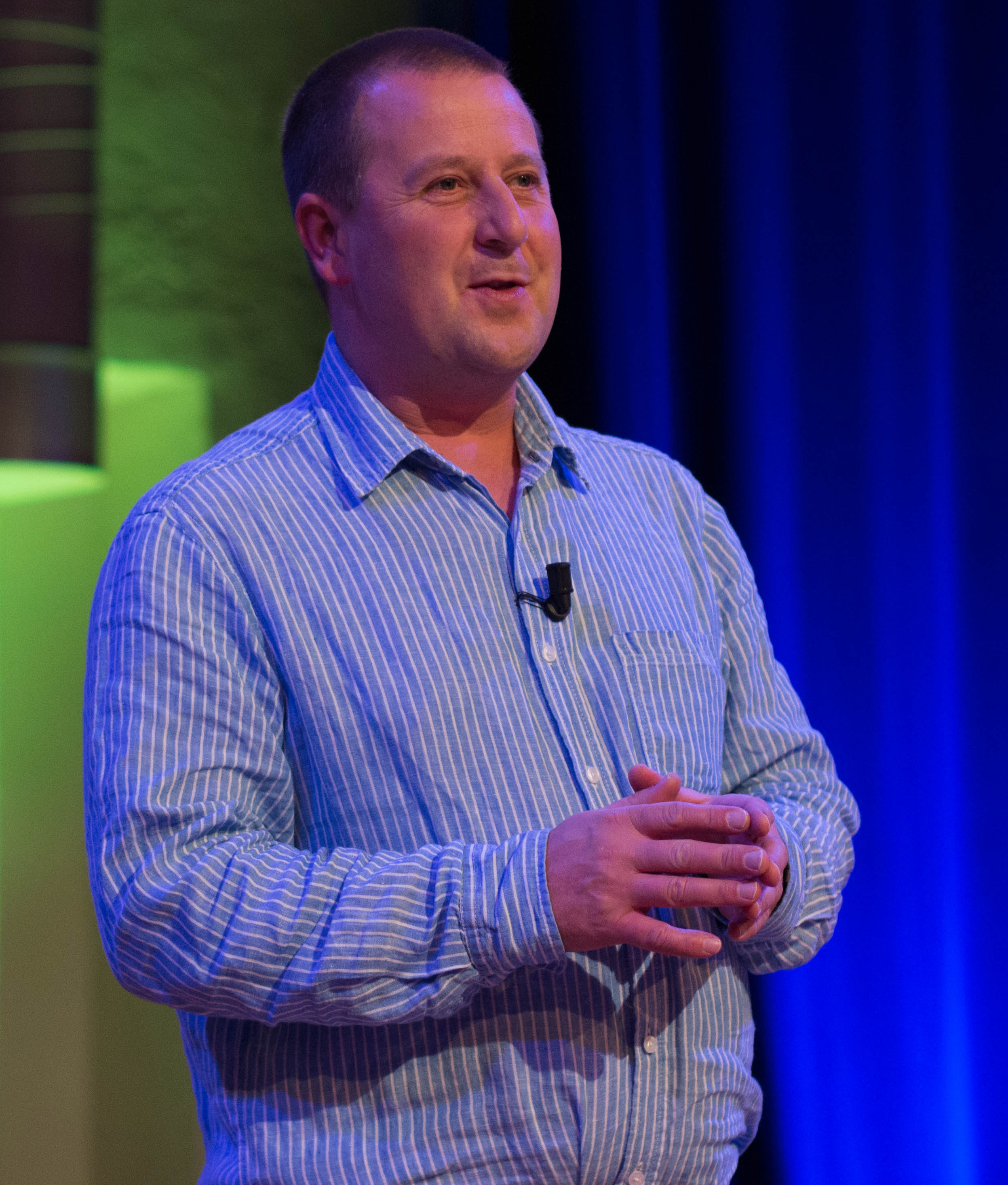 Julian Baggini at Brainwash Festival